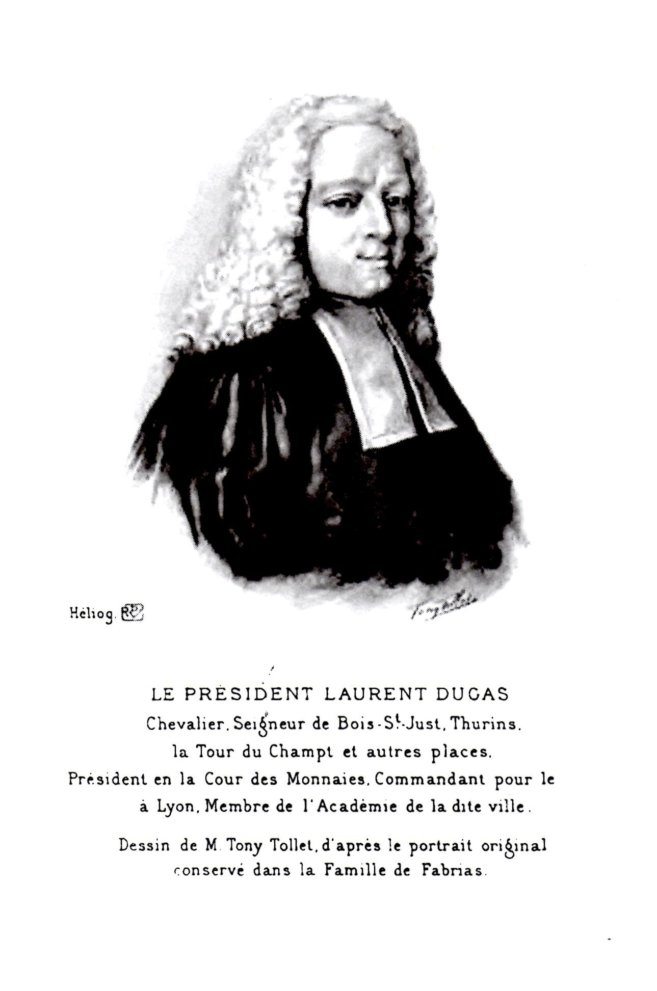 Laurent Dugas de Bois Saint-Just (Lyon, France 1670 - Lyon 1748)